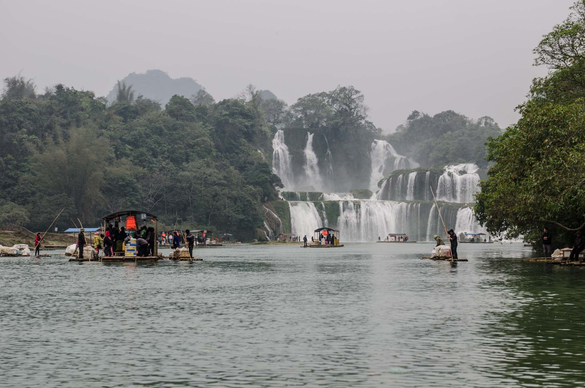 Waterfalls from Chinese side of river showing tourist boats approaching the falls.